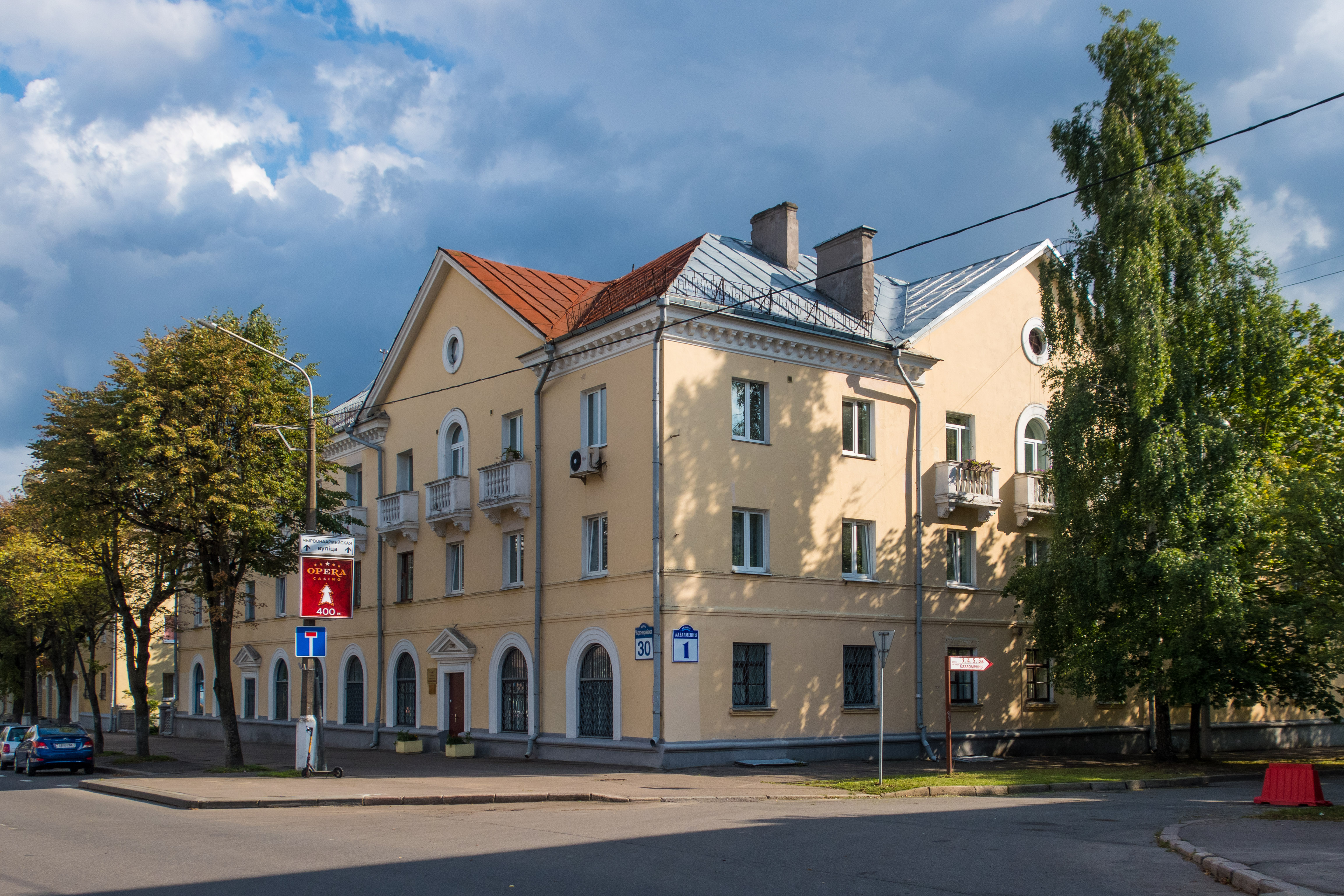 Čyrvonaarmejskaja street. Minsk, Belarus